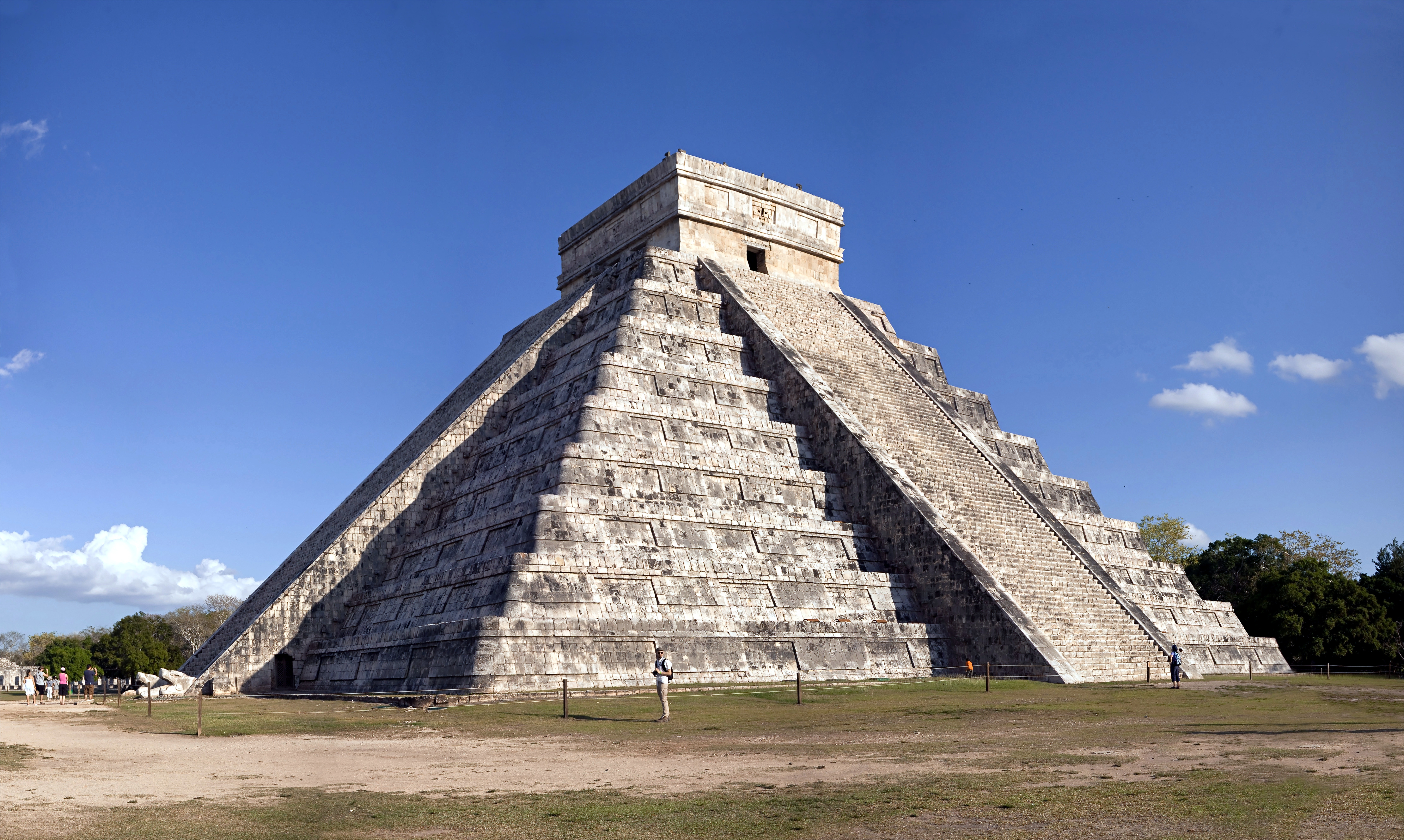 El Castillo (Spanish for "castle"), also known as the Temple of Kukulkan, is a Mesoamerican step-pyramid that dominates the center of the Chichen Itza archaeological site in the Mexican state of Yucatán. The building is more formally designated by archaeologists as Chichen Itza Structure 5B18.